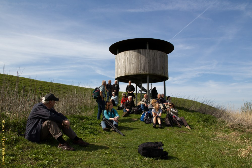 Birdwatch Delft is visiting Tiengemeten